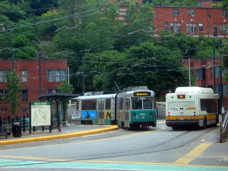 Green Line Type 7 streetcar and a #14 bus in the loop at Heath Street